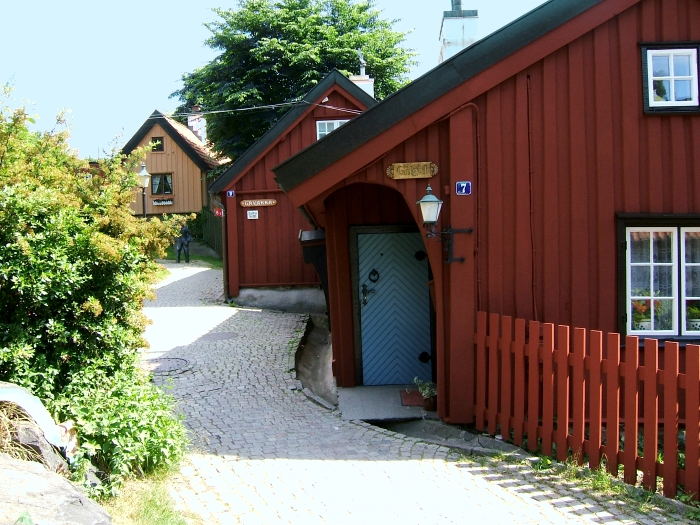 The Gathenhielm reserve in Göteborg, Sweden, the street Pölgatan